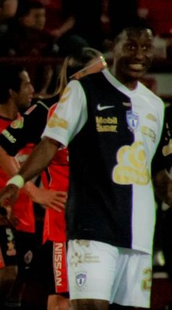 Ecuatorian player Jaime Ayovi